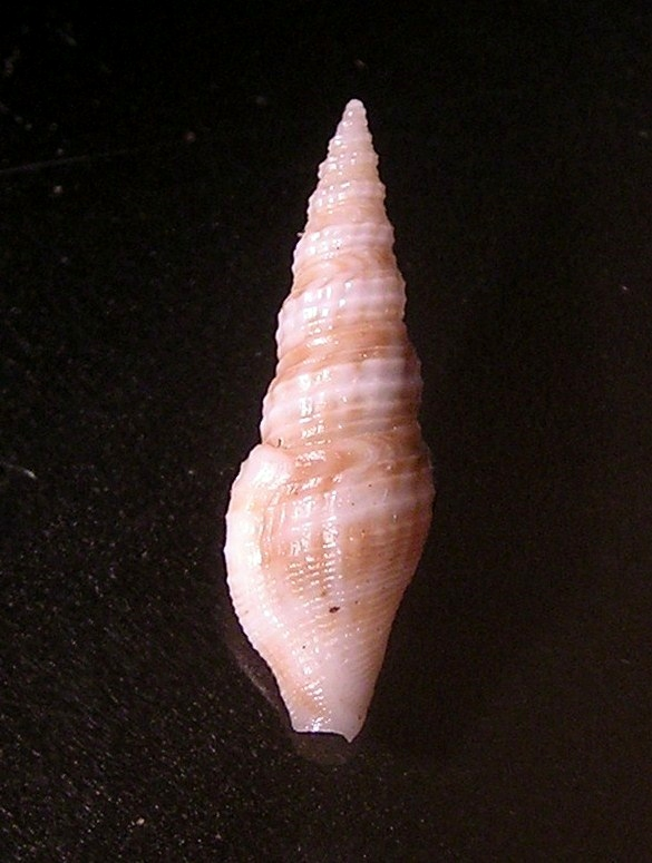 Cymatosyrinx parciplicata G. B. Sowerby III, 1915, a sea snail from the family Drilliidae; Philippines Category:Drilliidae